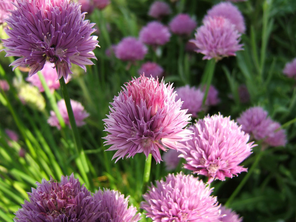 Allium schoenoprasum, Chive